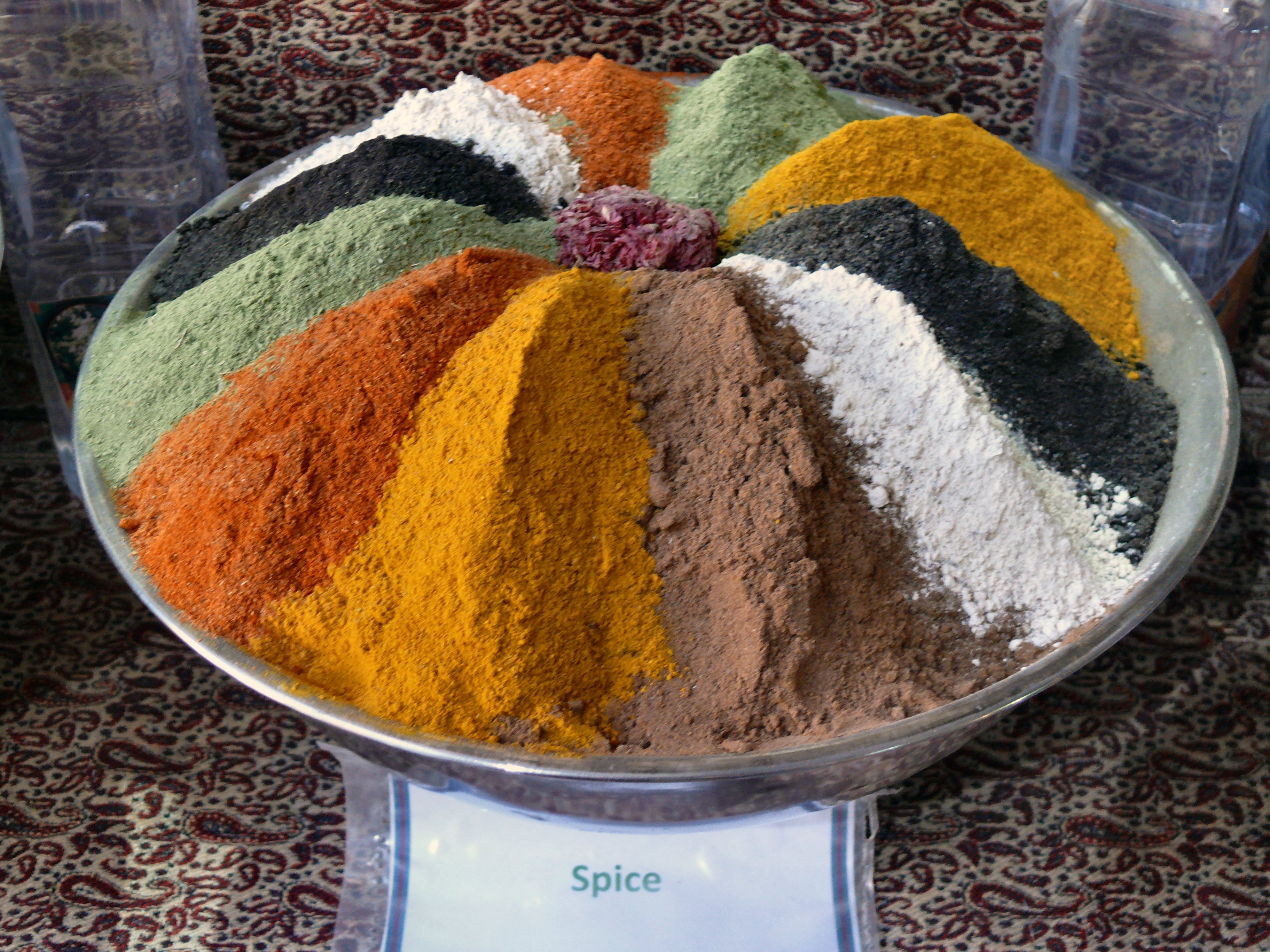 Spice bowl in a shop at the Bazaar-e Vakil, Shiraz, Fars, Iran, April 2009